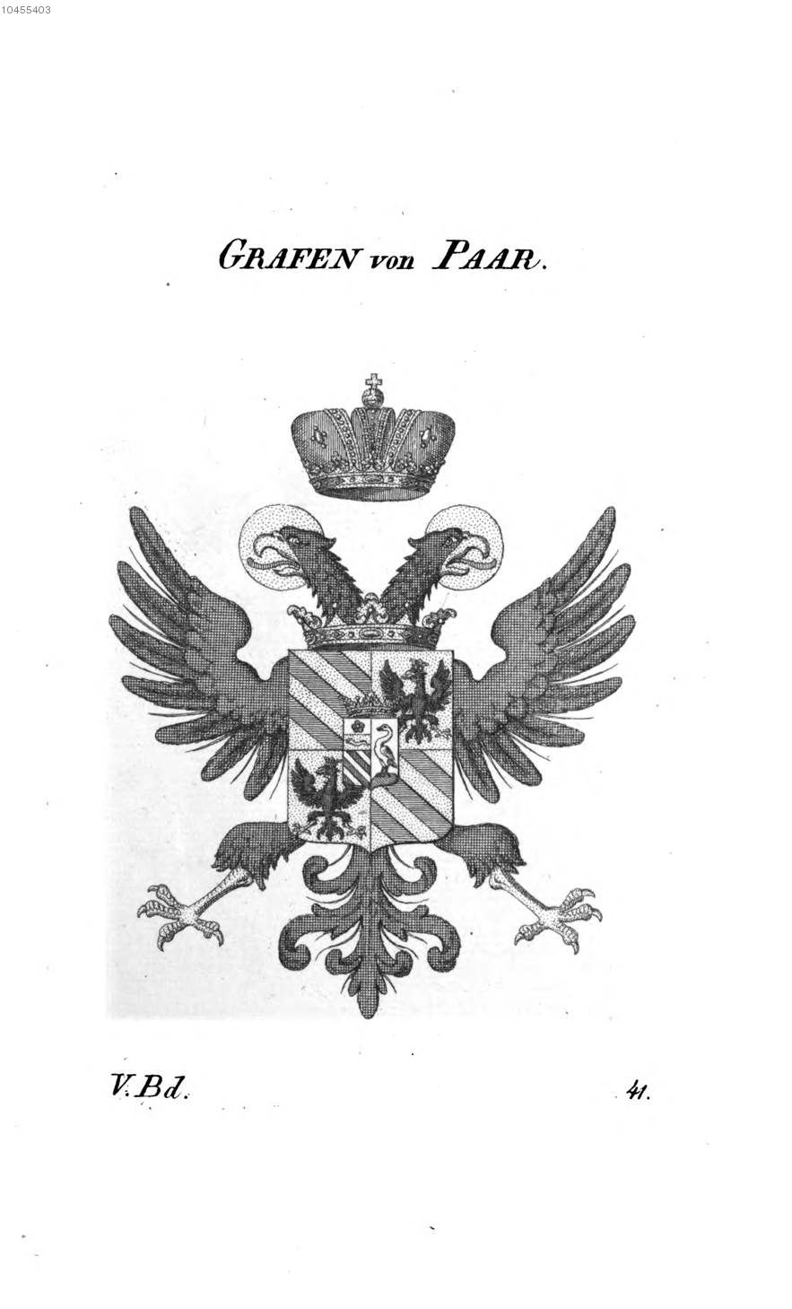 Wappen Paar 2 - Tyroff AT.jpg